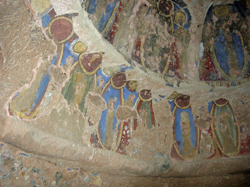 Most of the Buddist artwork has been grafettied over by the Taliban following the demolishion in 2001. More from Afghanistan on my site contained in these posts. CC